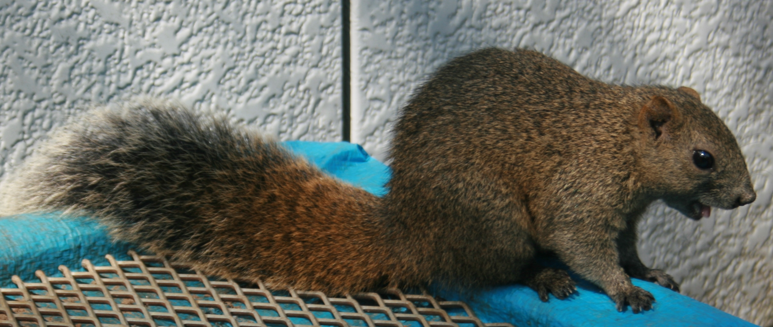 Callosciurus erythraeus thaiwanensis in zoo of Mount Kinka (Squirrel Village)